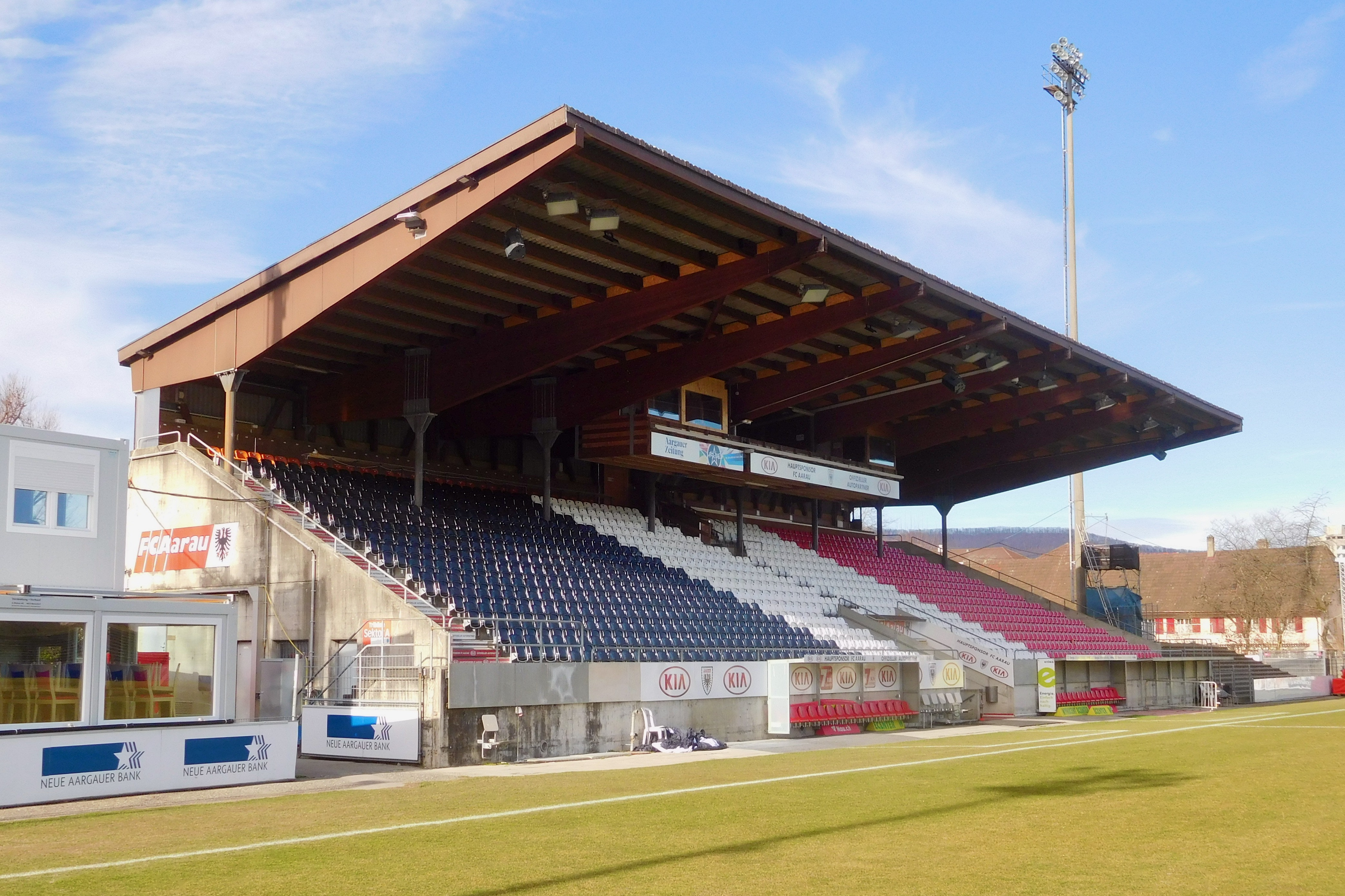 Stadium Brügglifeld (Main Stand)